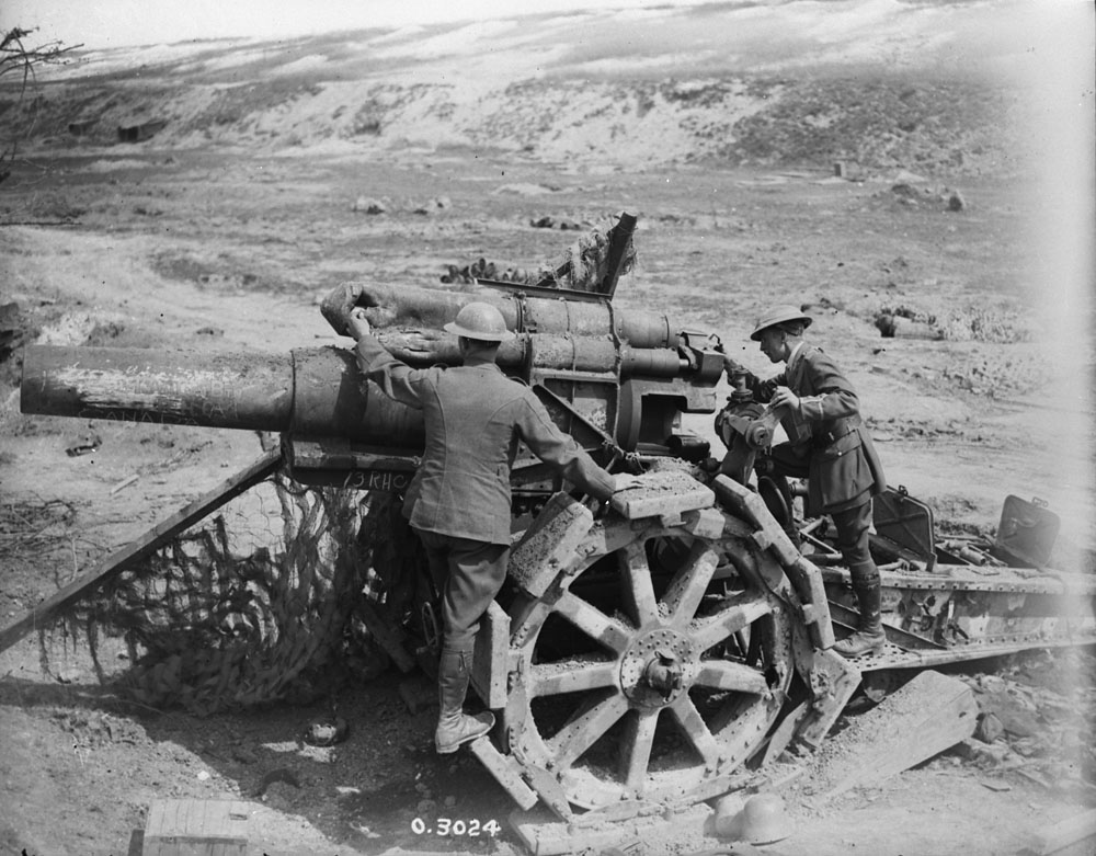 Captured German 21 cm Morser 16 gun.